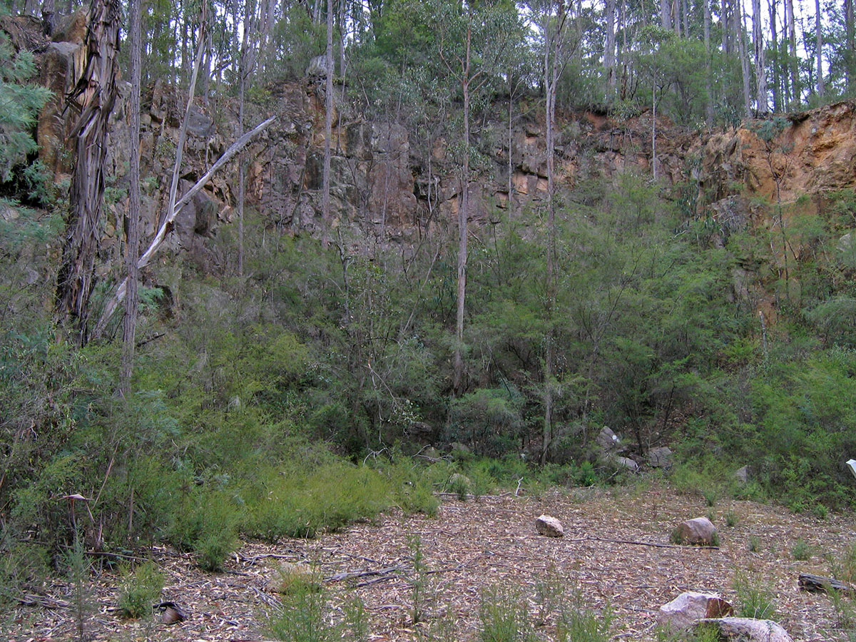 Former granite rock quarry on the Gippsland Lakes Discovery Trail near Quarry Rd, Colquhoun State Forest, Victoria, Australia.